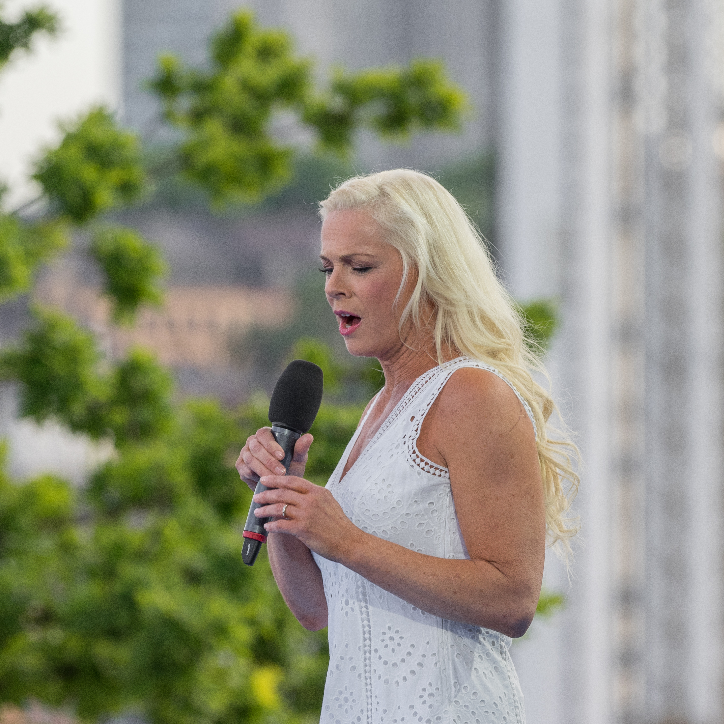 National Day of Sweden 2016 at Skansen in Stockholm, Sweden 6 June 2016.